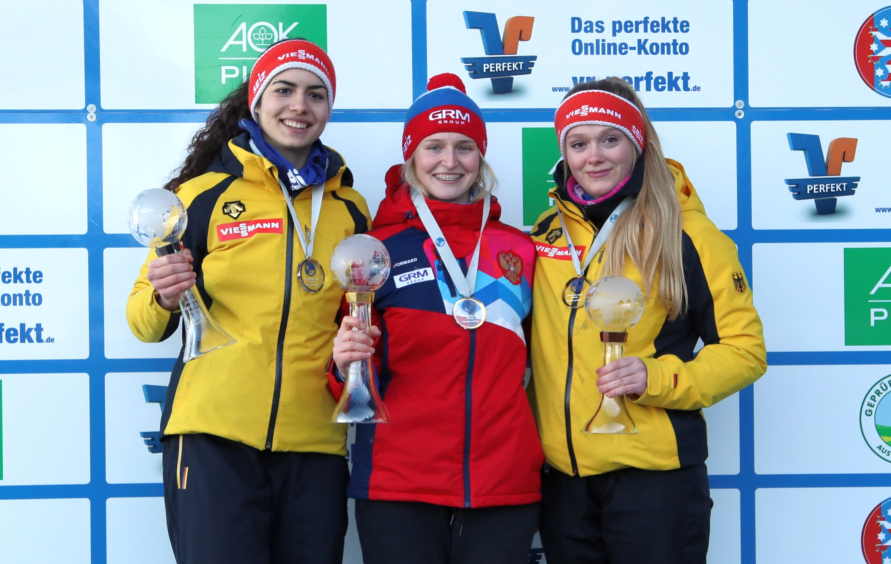 Saturdays Victory Ceremonies at the 2018/19 Juniors and Youth A Luge World Cup in Oberhof